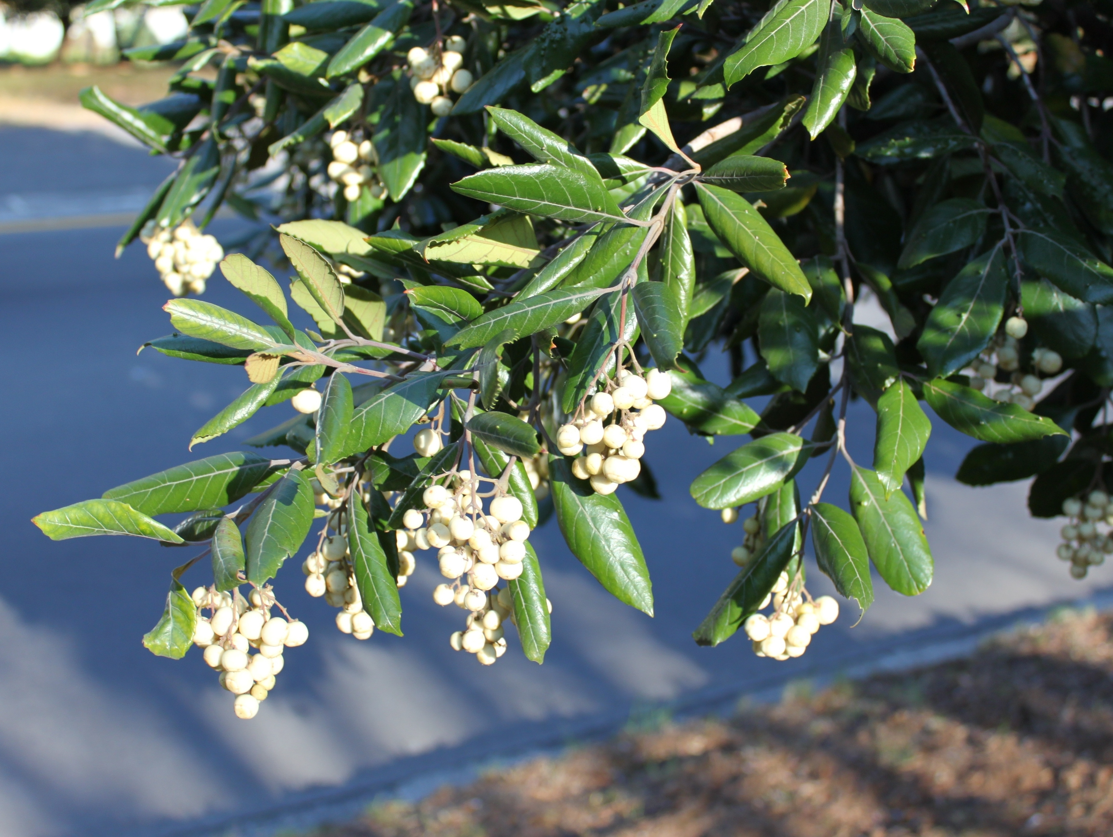 Curtisia dentata. Assegai tree. Cape Town. Fruits and foliage.